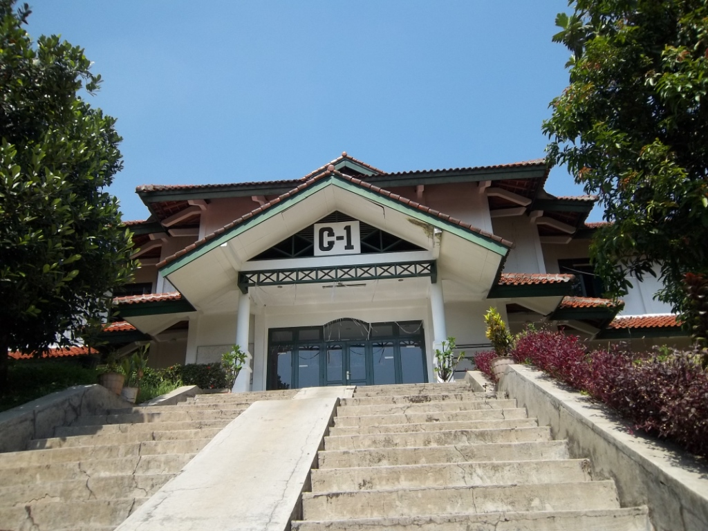 Student dormitory of Bogor Agricultural University